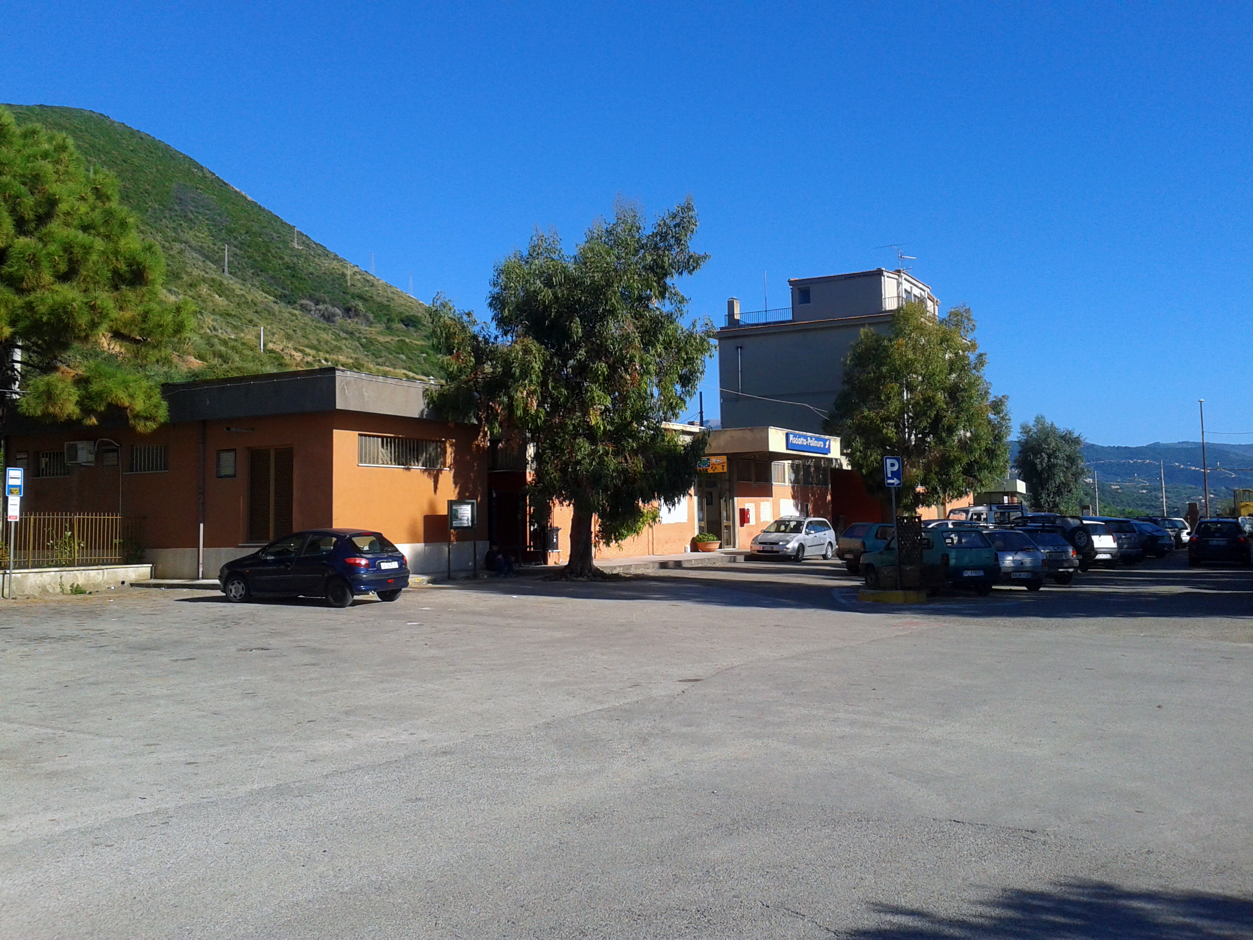 Outside of the train station of Pisciotta-Palinuro (SA) Italy